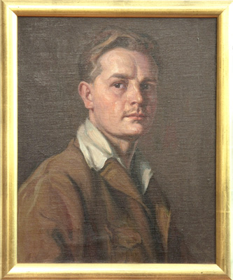 Wolfram Rudolphi (1906-1992), son of the painter Johannes Rudolphi